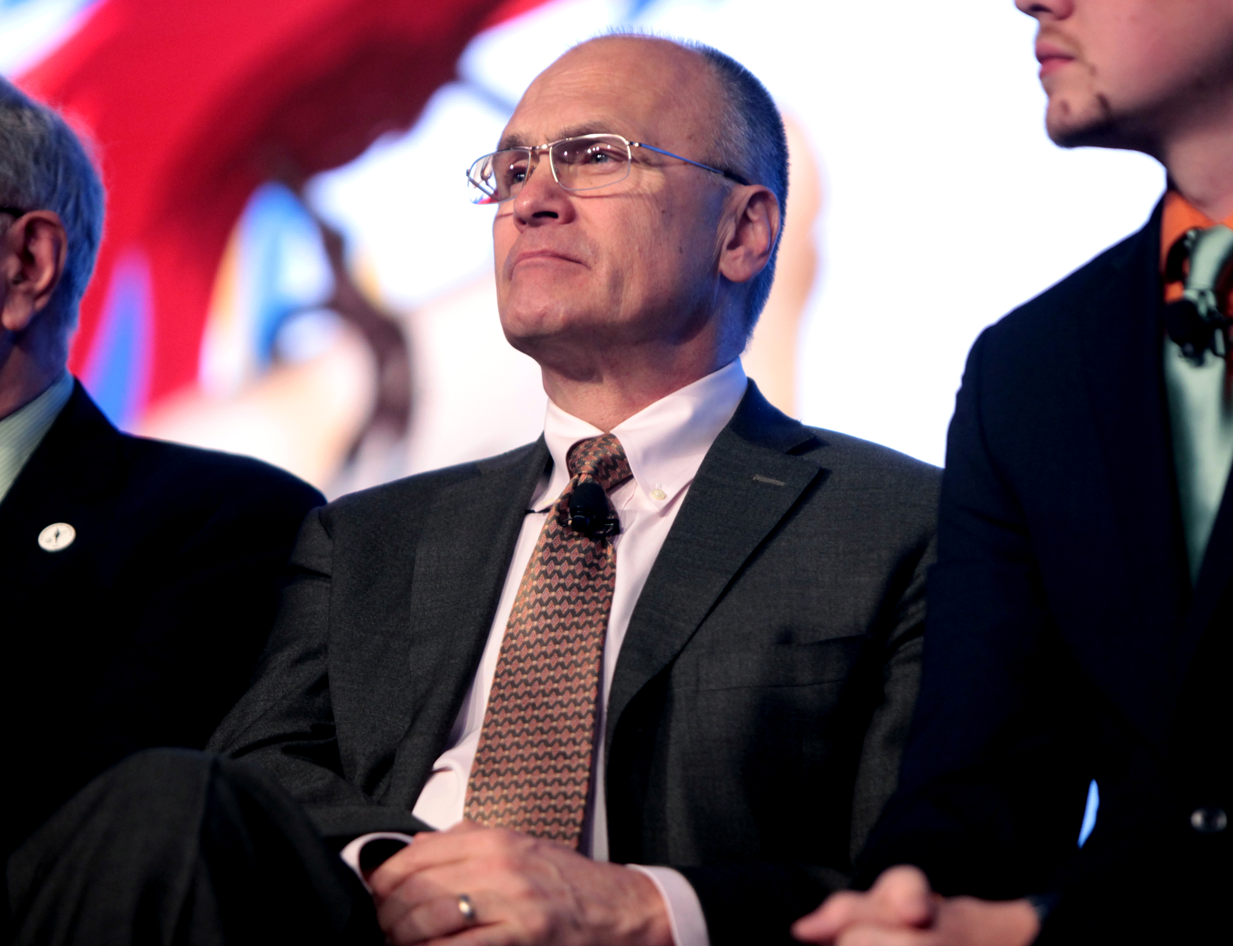 Andrew Puzder speaking at an event in Las Vegas, Nevada.